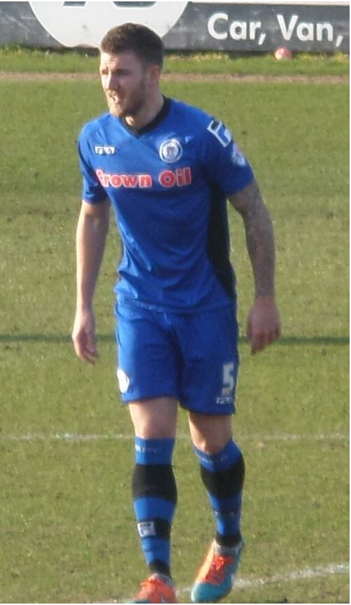 Ashley Eastham in 2015